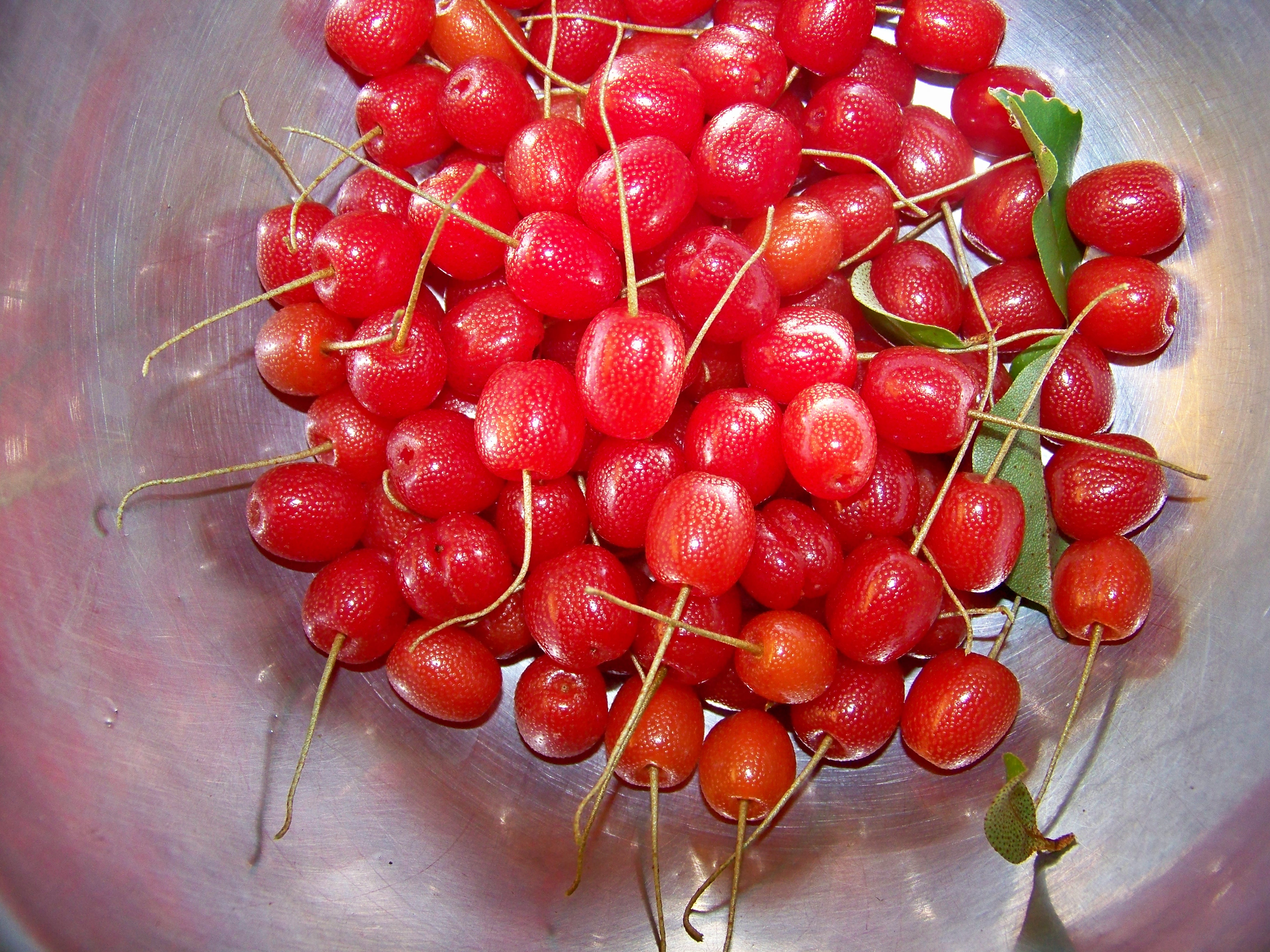 Silver berries from a flavorful, large-fruited cultivar in a metal bowl.